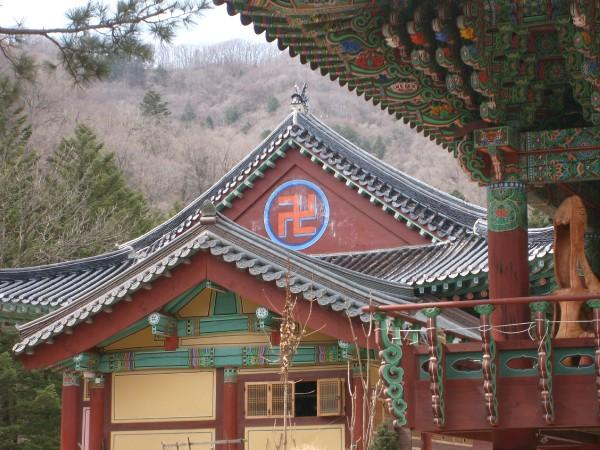 Administrative Office of Woljeong-sa (Woljeong temple). Odeason National Park. South Korea.